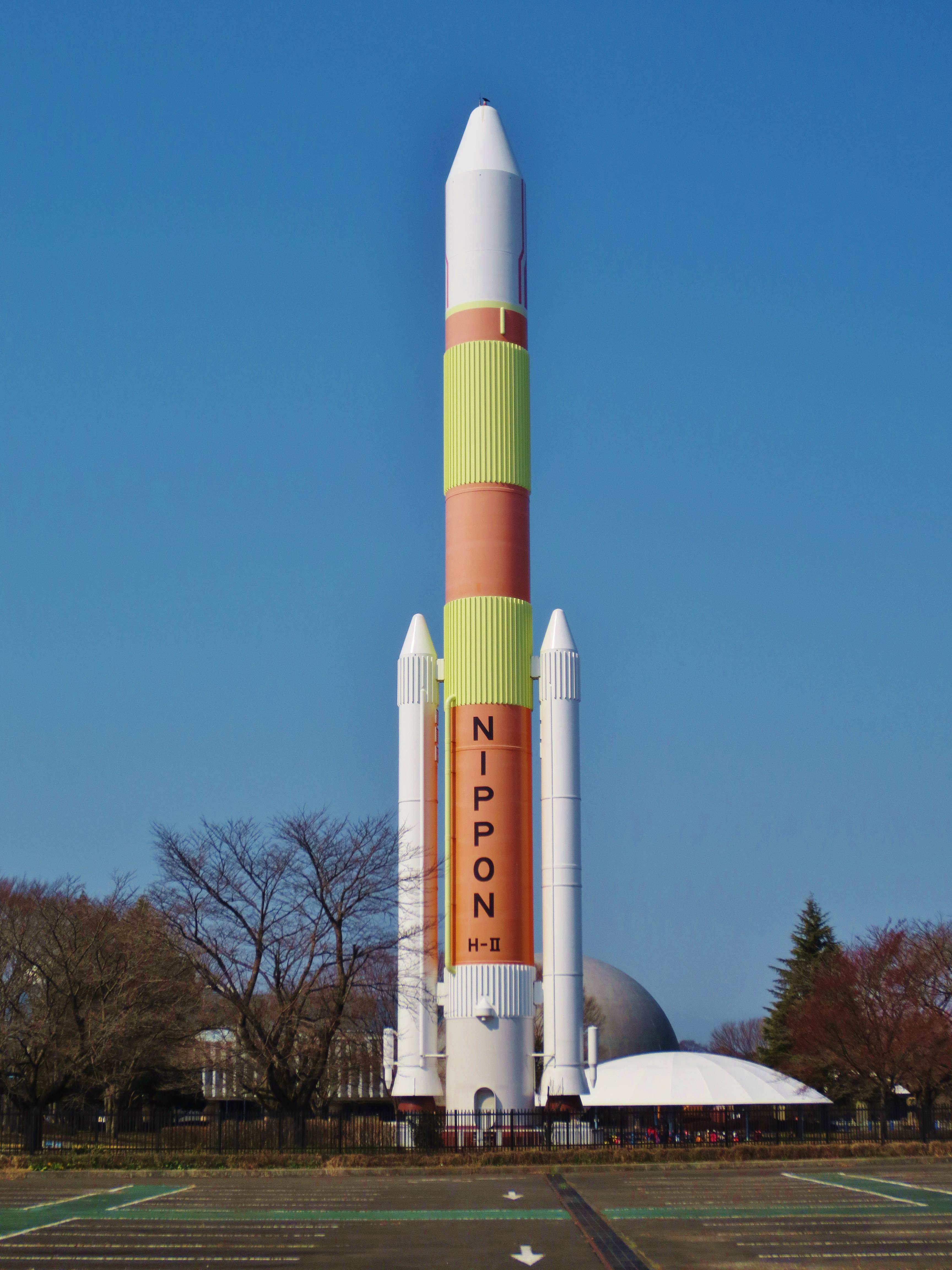 Tochigi Science Museum H-II mock-up.